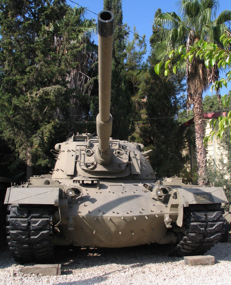 Description: M48 Patton tank in Batey ha-Osef museum, Tel Aviv, Israel. 2005. Source: Photo by me, User:Bukvoed.